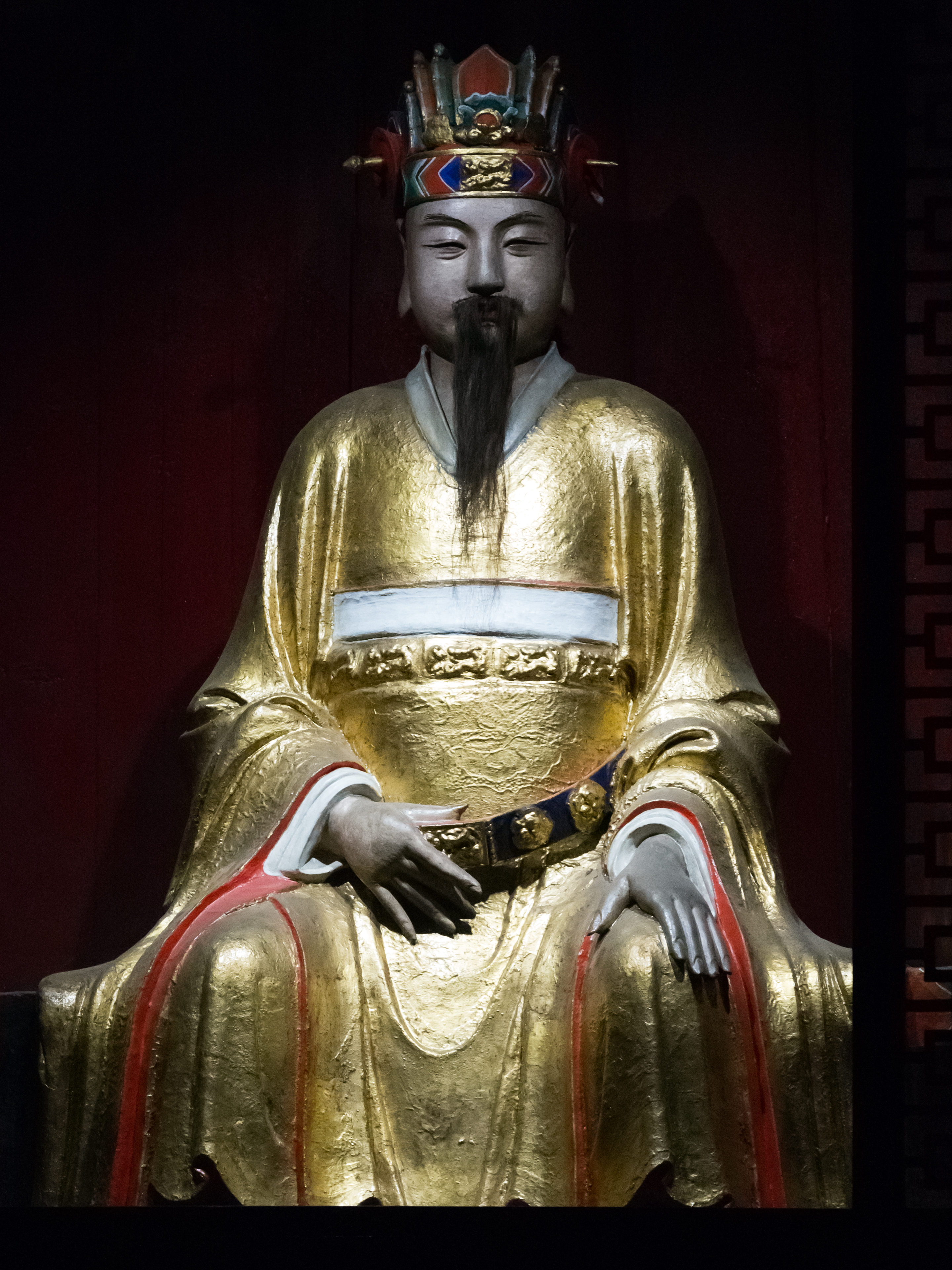 Zhuge Zhan (諸葛瞻)